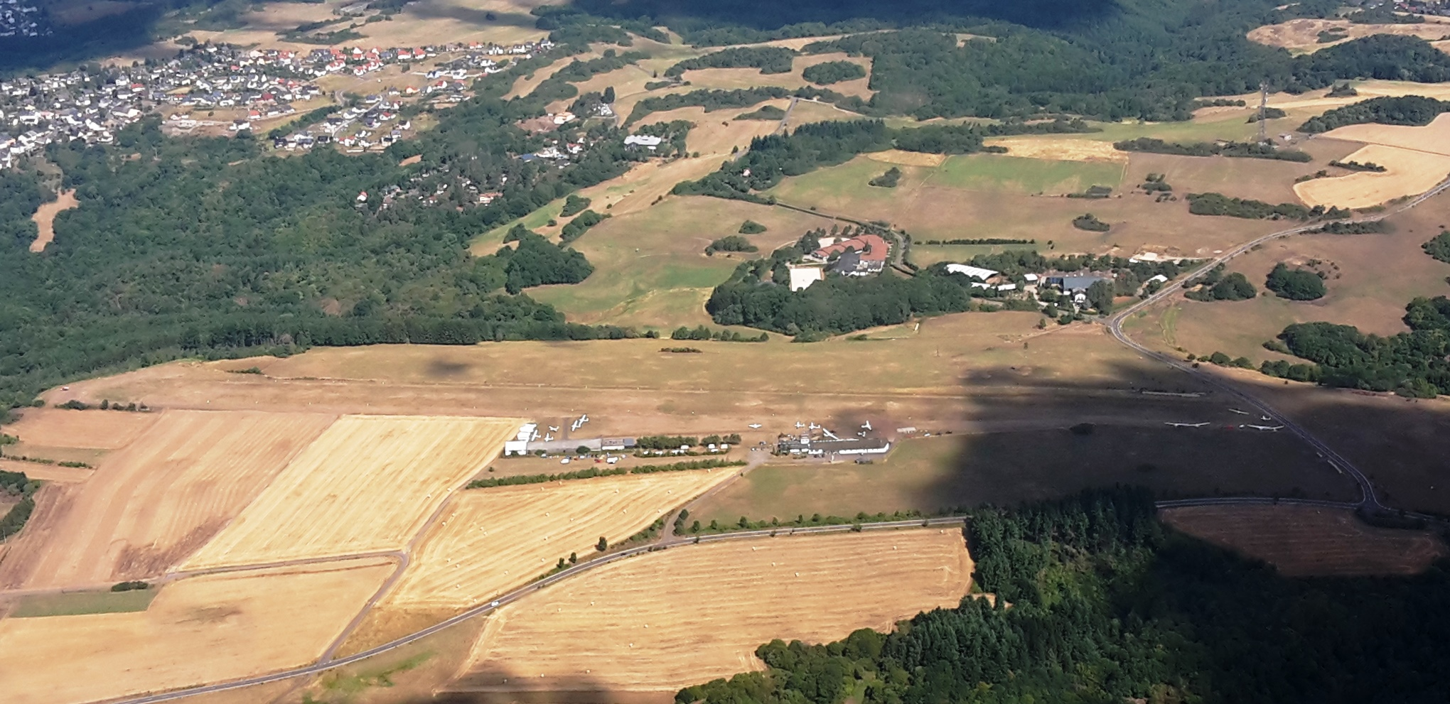 Idar-Oberstein Airfield